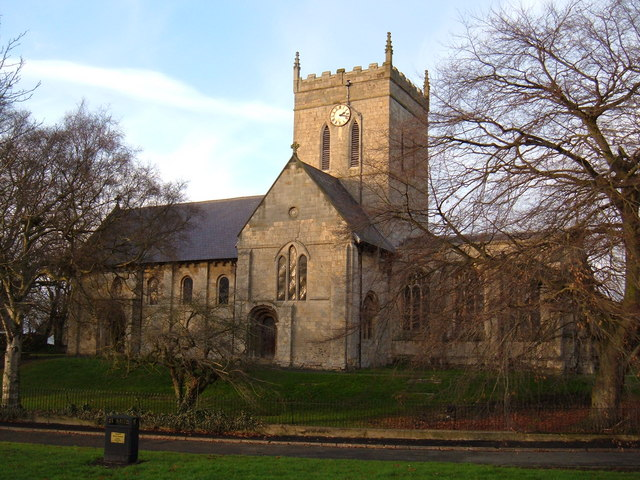 St Nicholas' parish church, North Newbald, East Riding of Yorkshire, England, seen from the southeast.